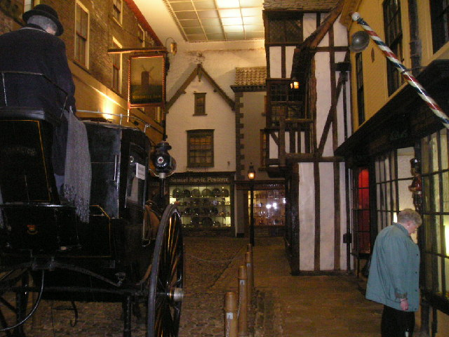 York, Castle Museum.